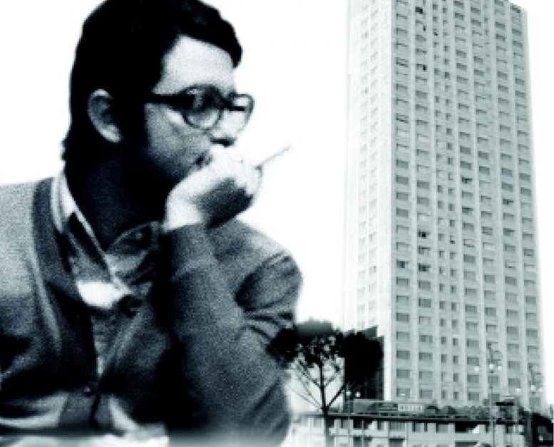 ferruccio benzoni